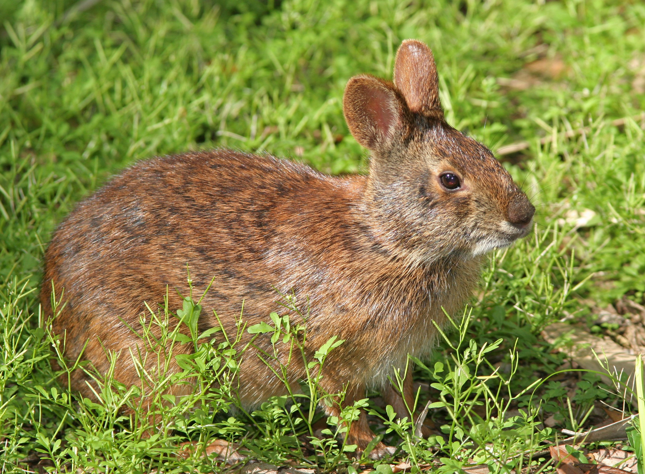 Crop of file in filename